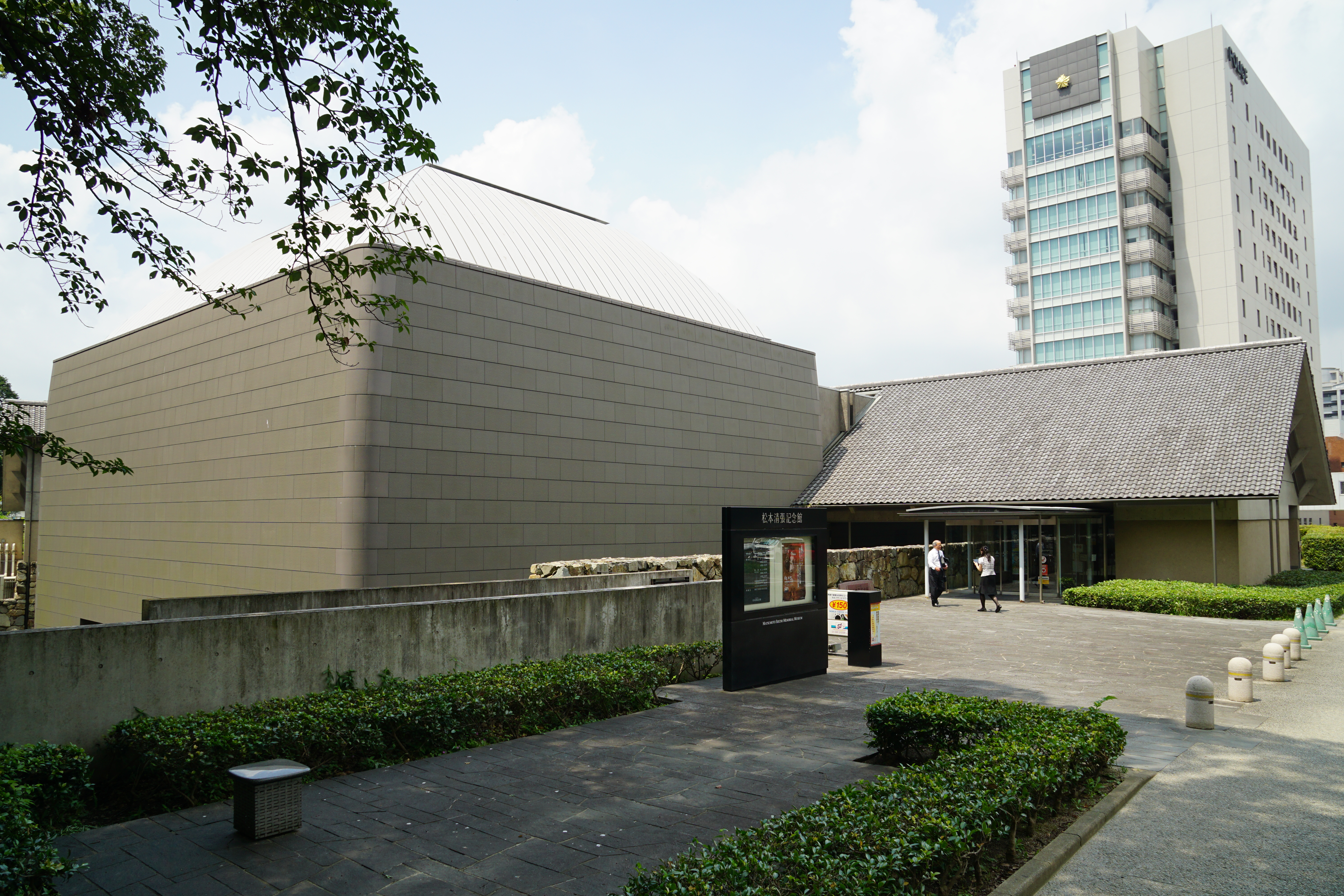 Matsumoto Seicho Memorial Museum in Kitakyushu, Fukuoka prefecture, Japan.